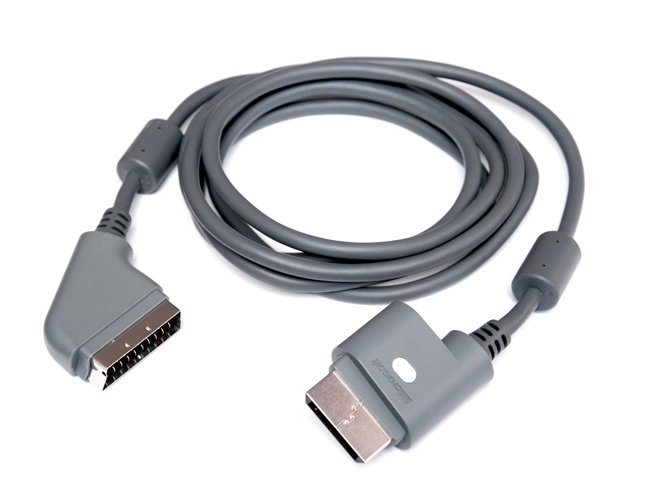 Advanced (RGB) SCART cable for the Xbox 360 games console.